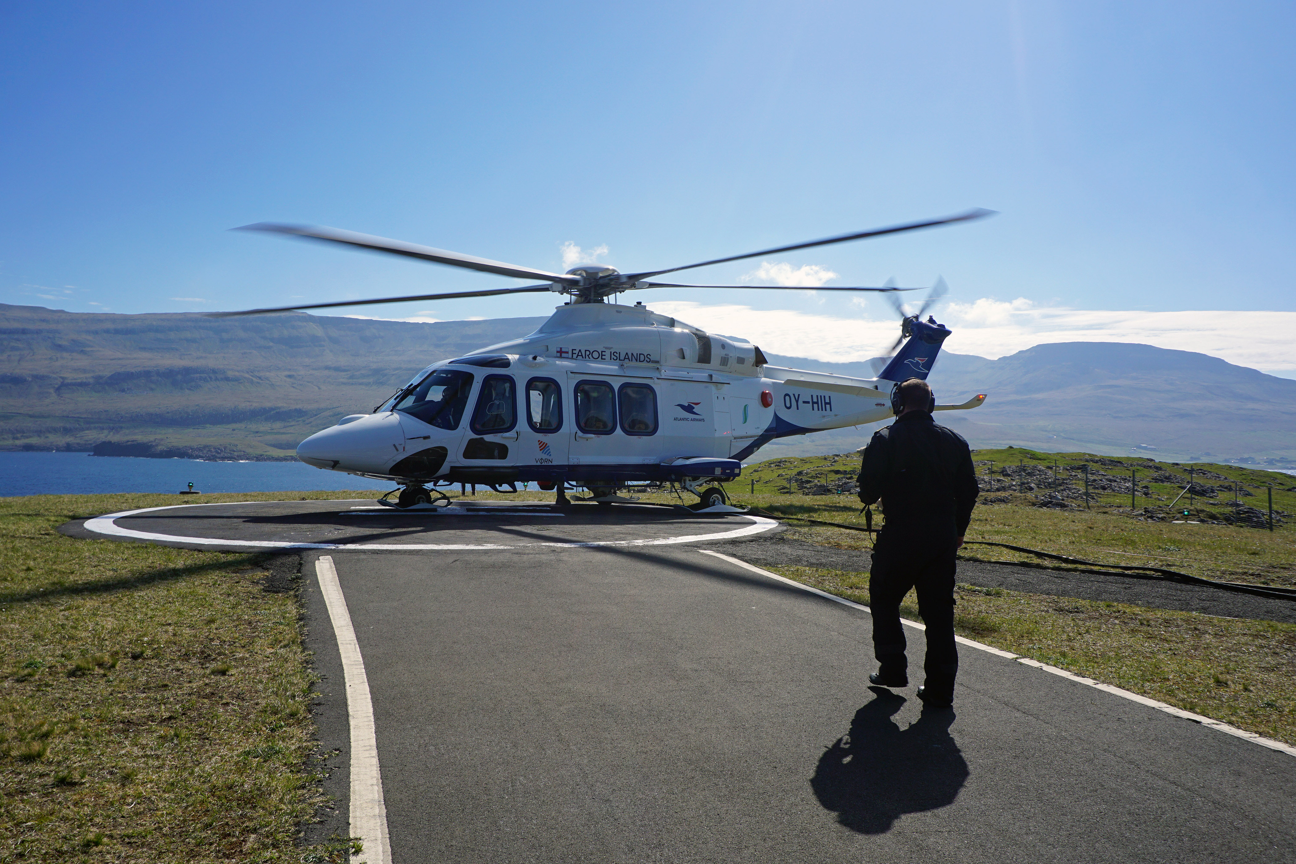 Atlantic Airways AgustaWestland AW139 OY-HIH at Froðba helicopter station with its pilot.